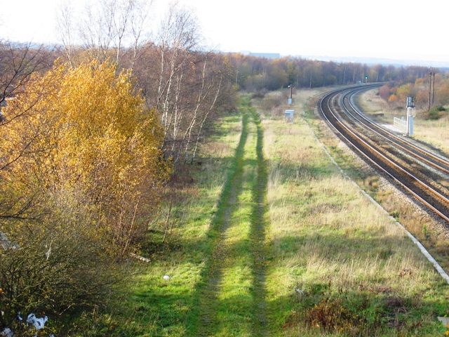 Mold Junction This was the location of the now demolished railway station at Saltney Ferry/Mold Junction. The local line from Chester to Mold veered left here, following the modern day tyre marks, just as the main Chester to Holyhead line veers right. The triangle of land, in between the two different lines and covered in trees, used to be a busy marshalling yard that worked through the night sorting the various individual wagons into trains.